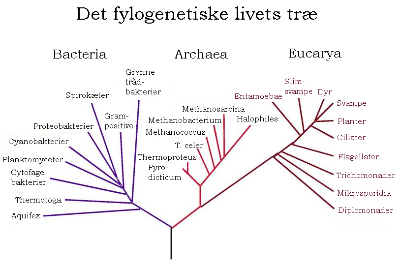 Tree of life in a Danish version.